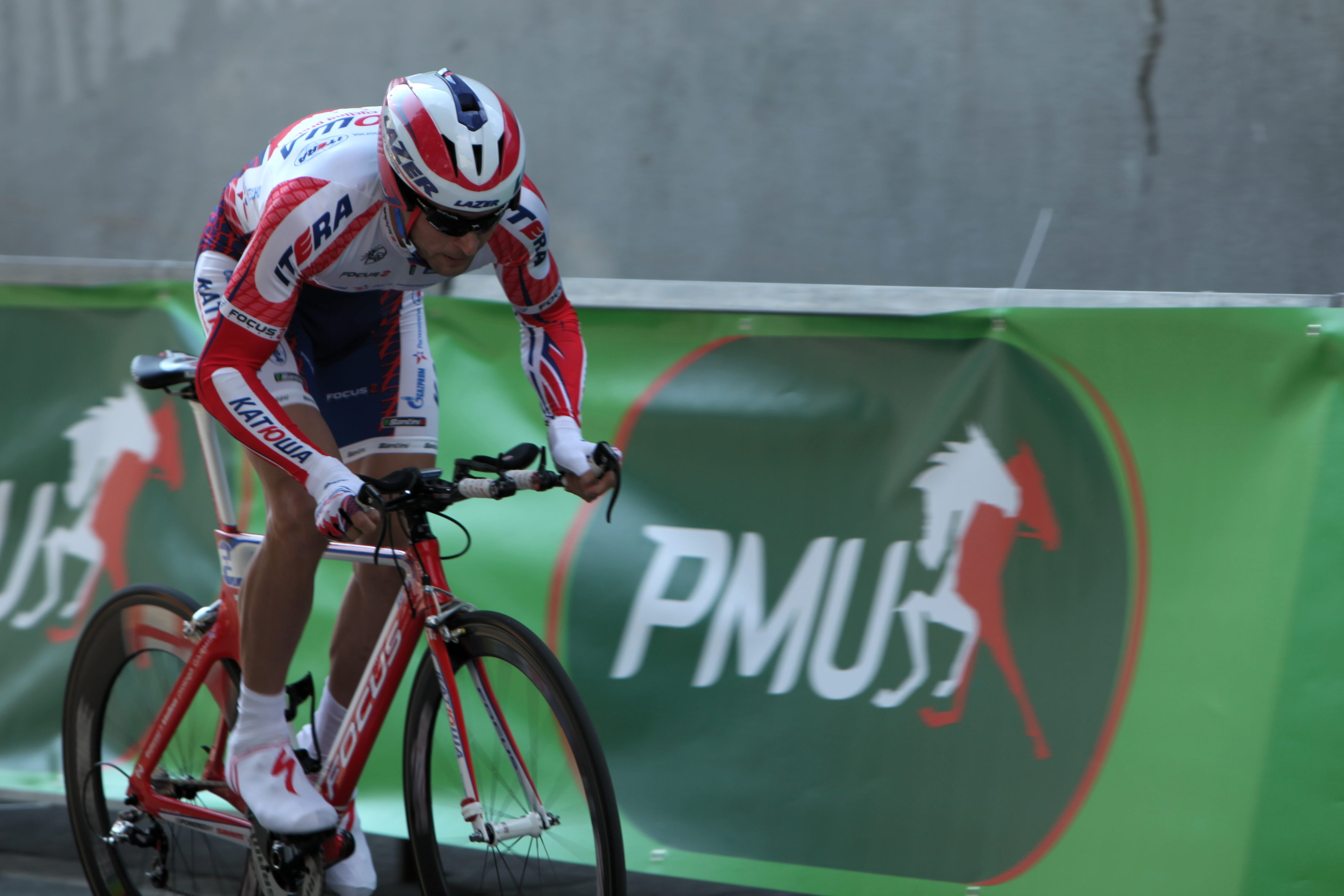 Aleksandr Kuschynski at the prologue of the Tour de Romandie 2011